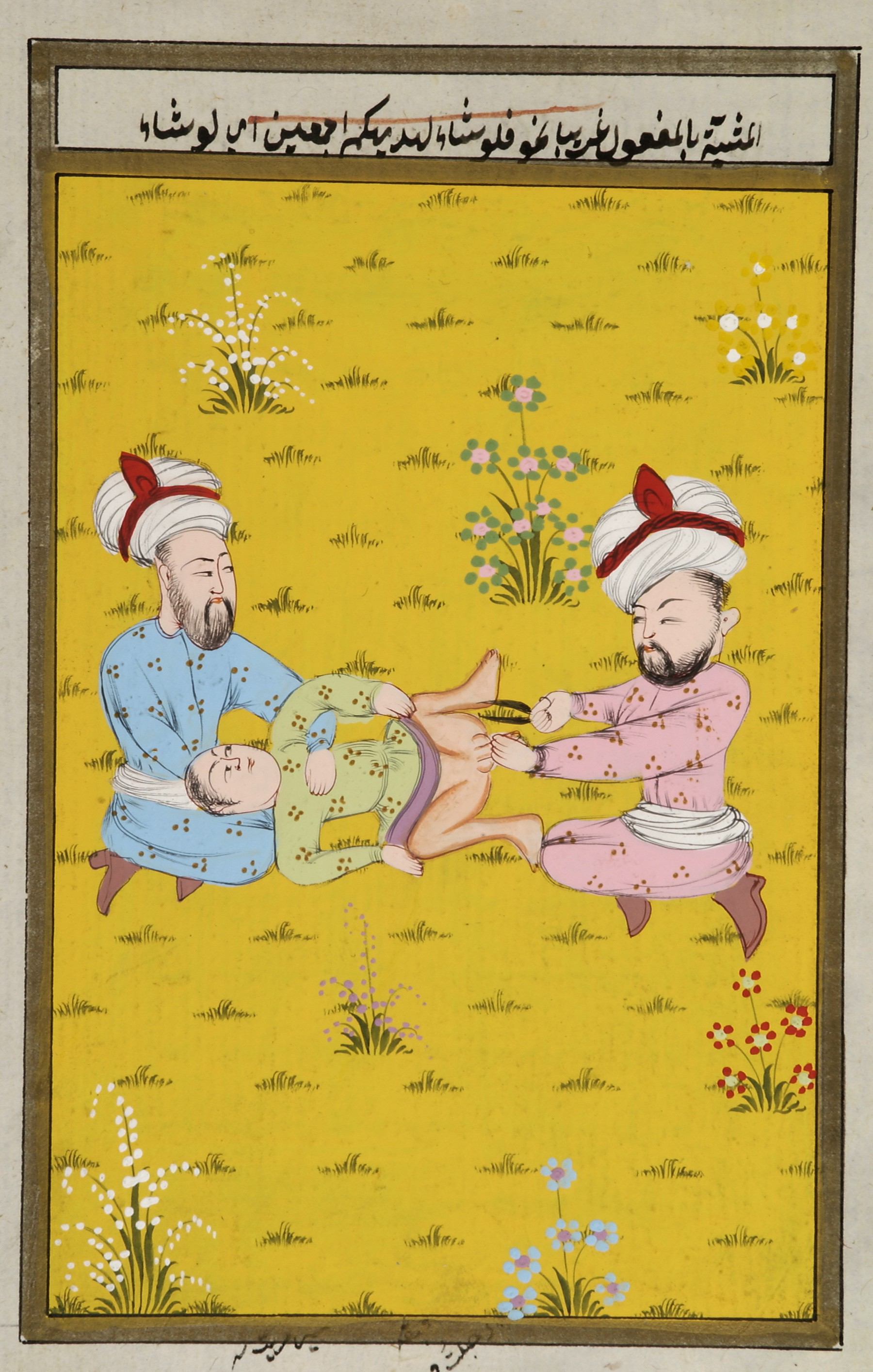 Circumcision of a male infant. Ottoman Empire. Asian Collection Keywords: Circumcision; Infants; Infant; Circumcision, Male; Ottoman